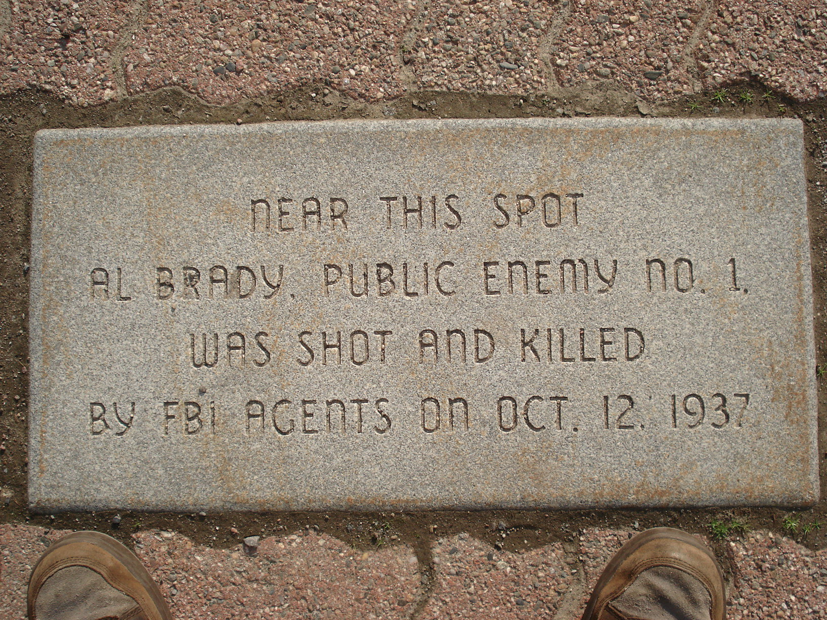 A place marker near the spot where the "Brady Gang" was gunned down by FBI agents on October 12, 1937.